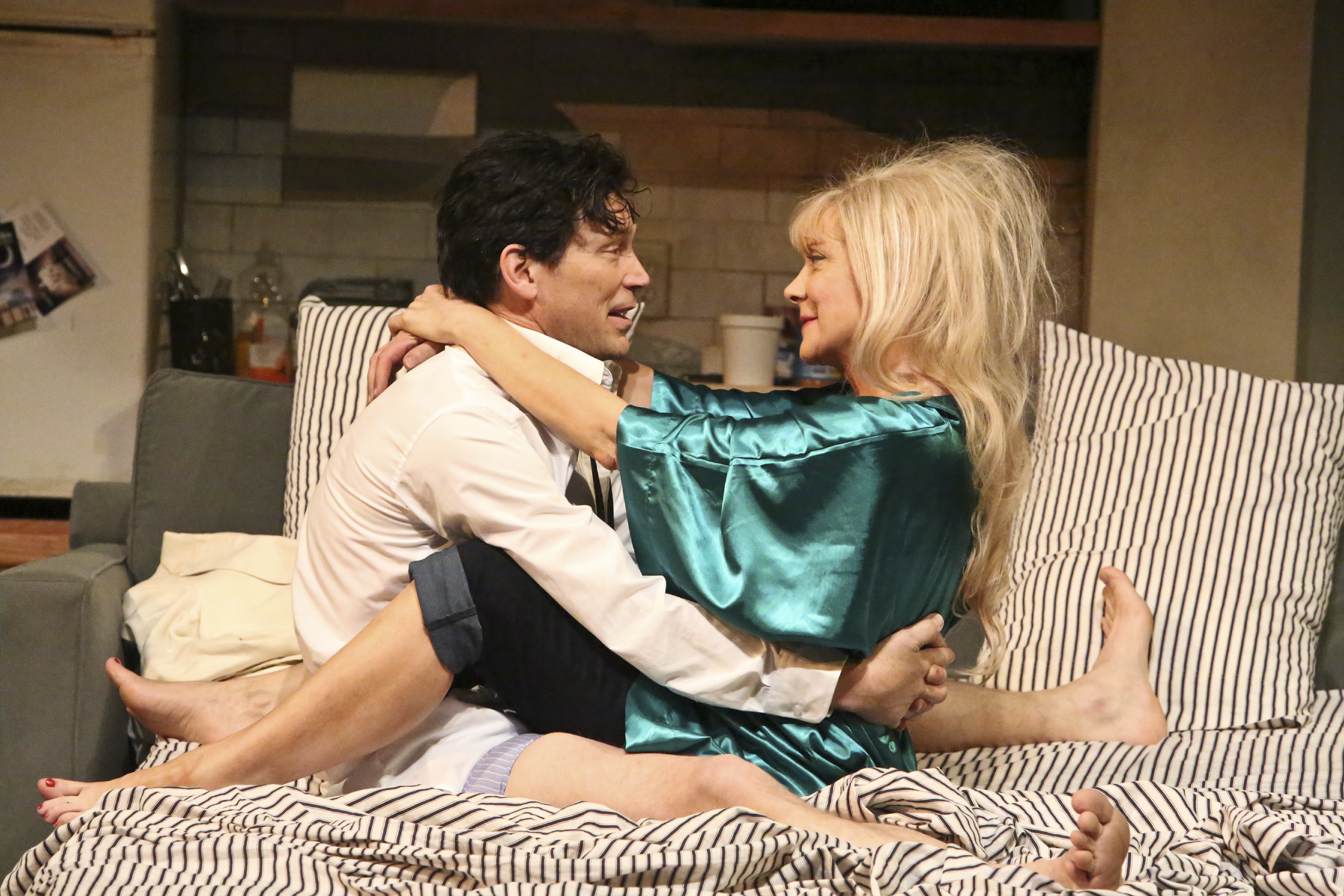 Glenne Headly as She in Stage Kiss at the Geffen Playhouse